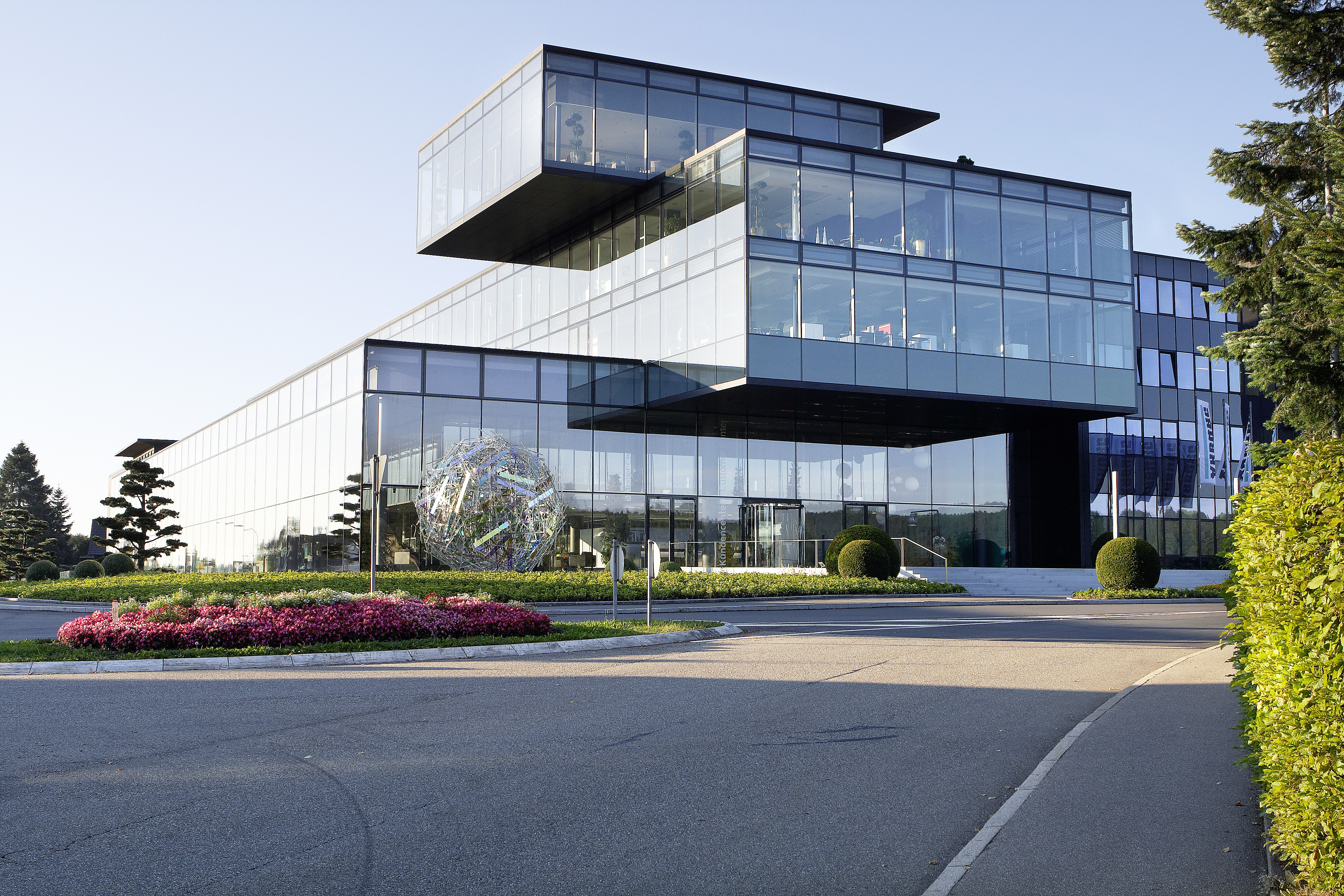 Headquarters of the injection moulding machines construction company Arburg in Lossburg, Germany